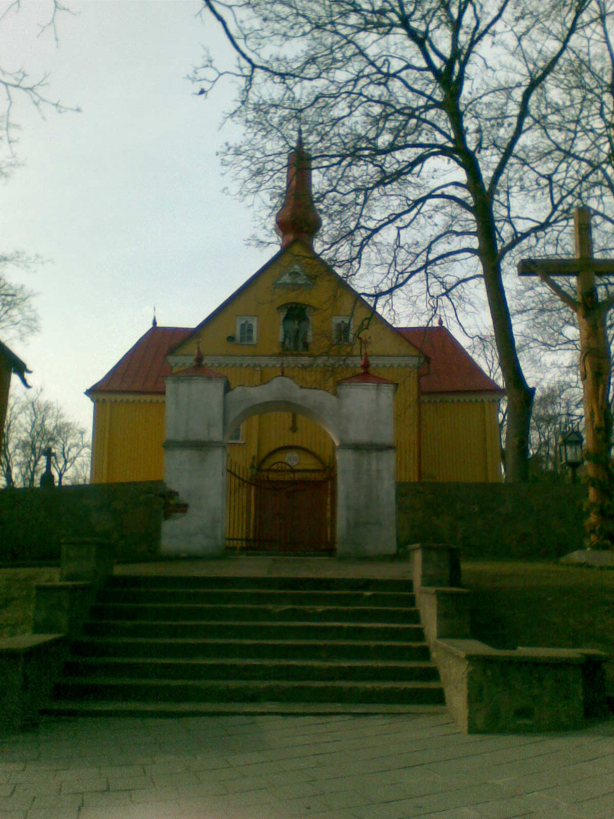 Skaudvilė catholic church.